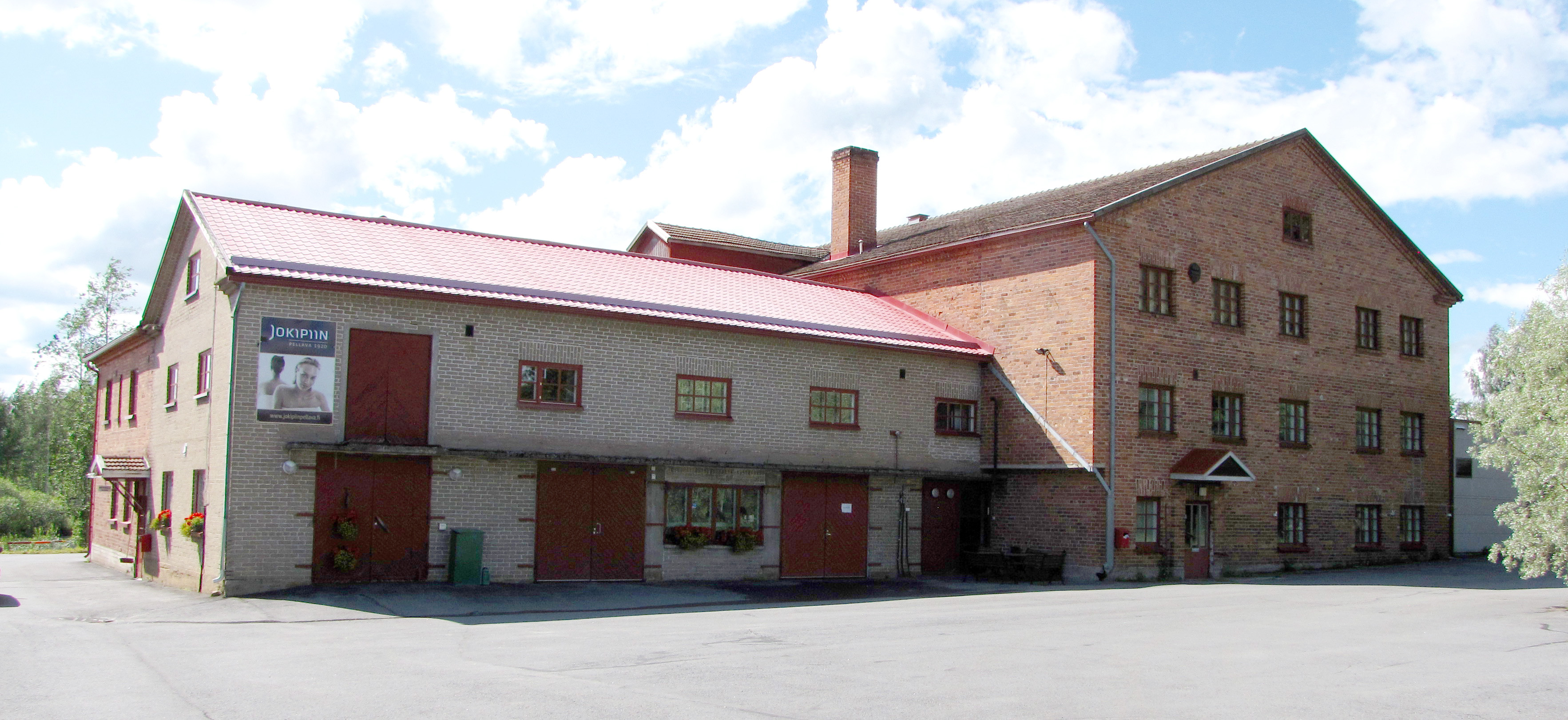 Linen textile manufacturer Jokipiin Pellava in Jokipii village, Jalasjärvi, Finland.